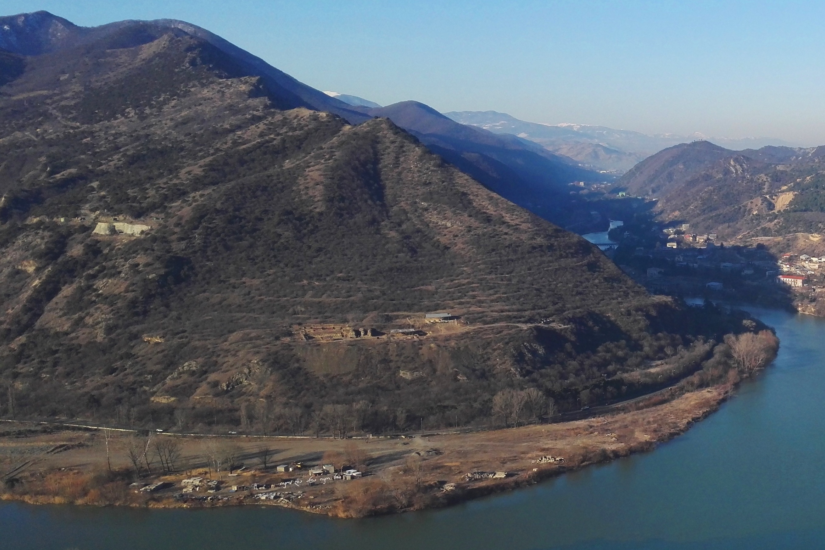 Eastern view of Mount Bagineti near Mtskheta in the Republic of Georiga